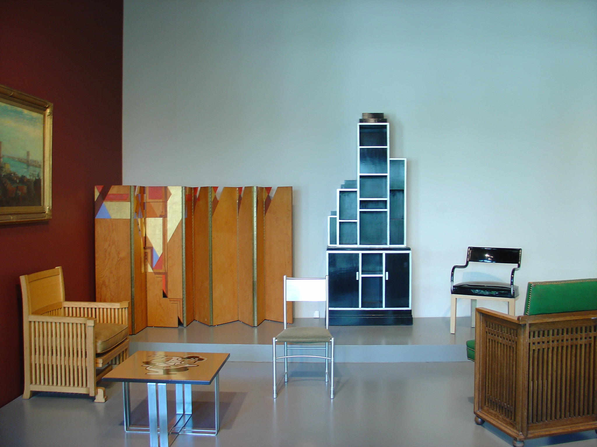 Picture taken at the Architecture and Design Departement of the Art Institute of Chicago